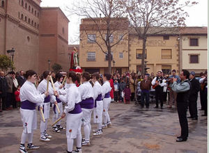 Los danzantes de Herrera de los Navarros